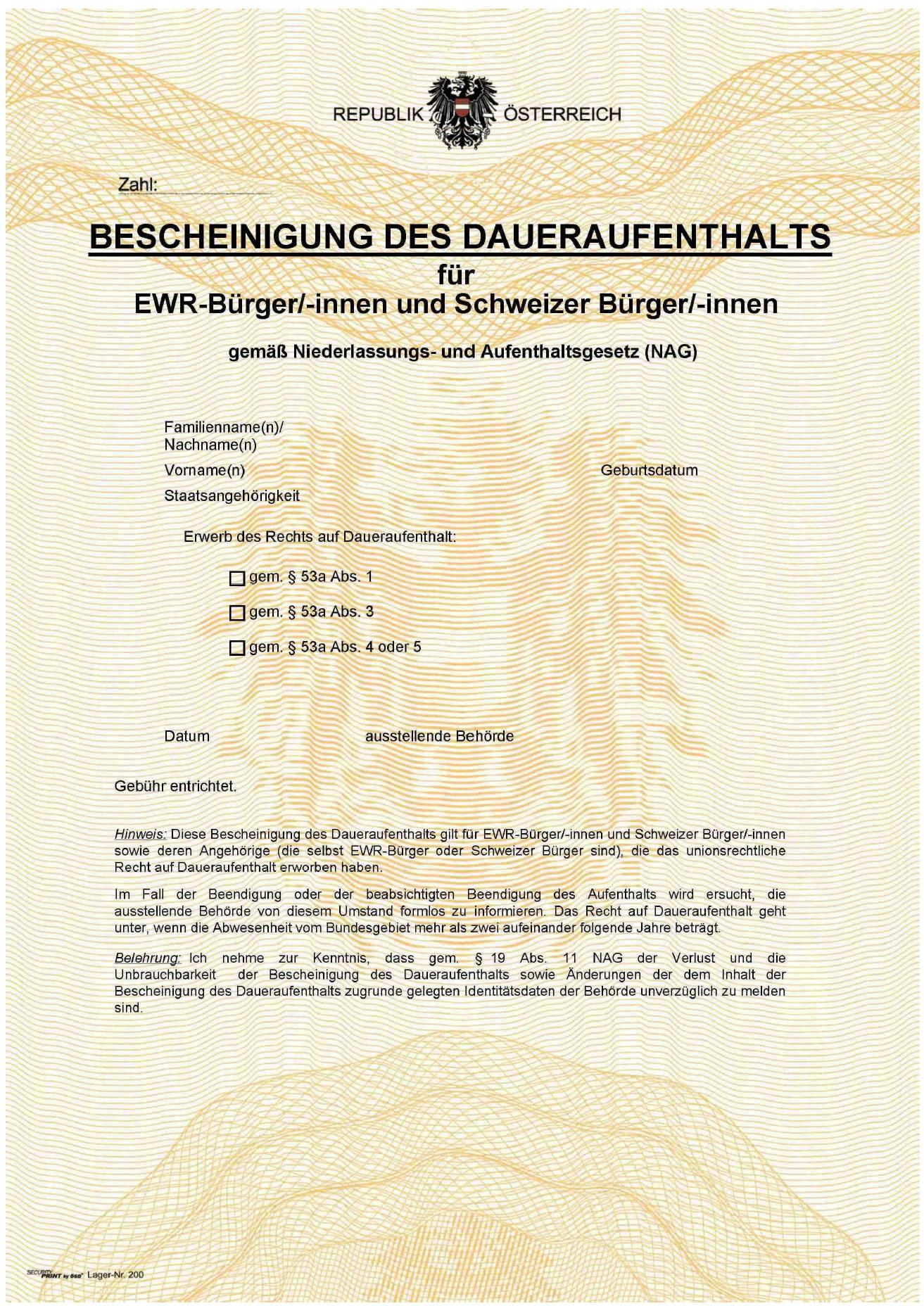 Document certifying permanent residence (Austria)